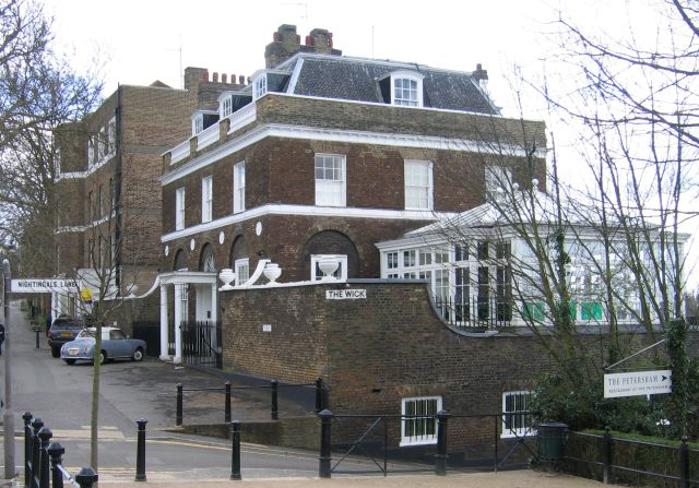 The Wick, Richmond Hill (& Nightengale Lane), Richmond, London, UK. (51Â° 27' 05.75" North, 0Â° 17' 53.3" West) Once the home of John Mills, now it's the home of Pete Townshend. Taken by Mark Barker.